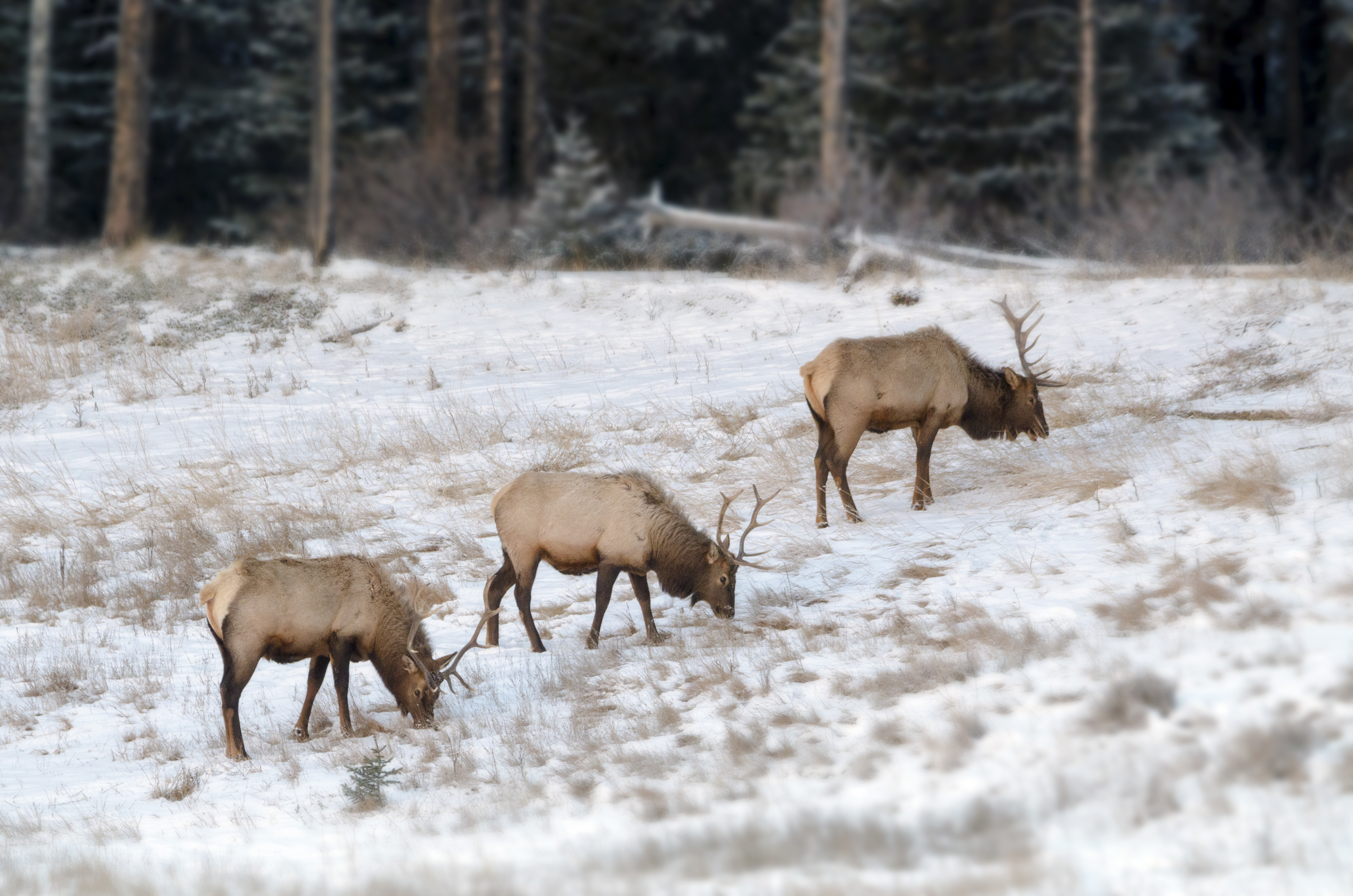 Elk bulls in late autumn, Banff National Park, Canada